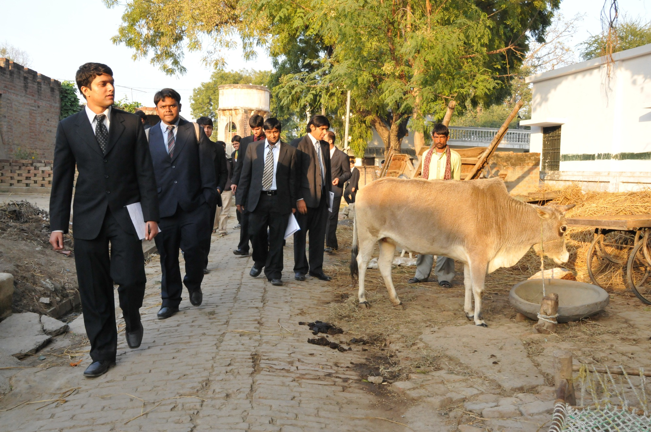 Flagship Event Snapshot,Manfest 2011